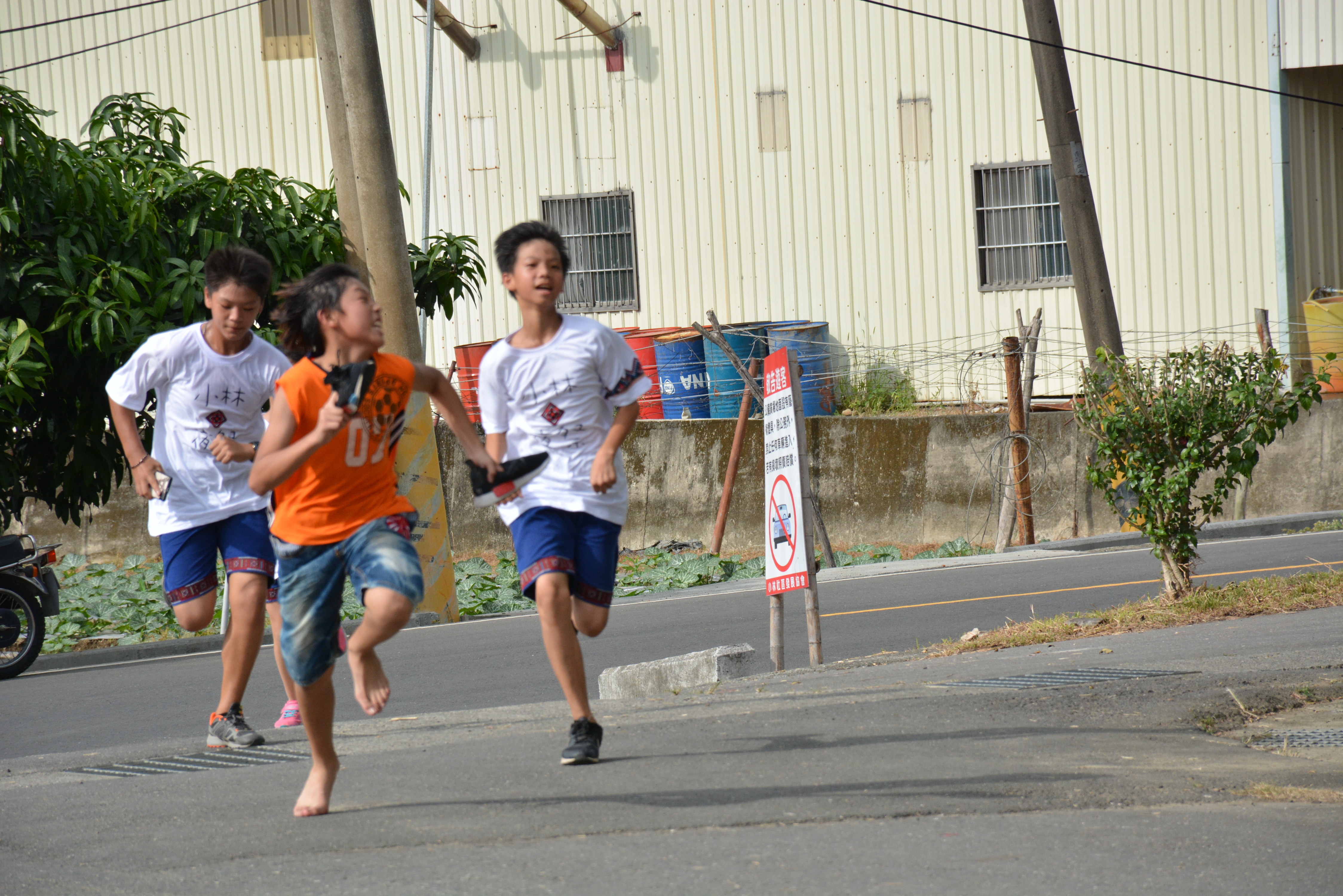 Running-race on the Taivoan's Night Ceremony in Xiaolin.